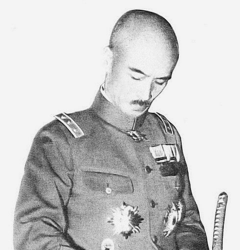 Yoshikazu Nishi